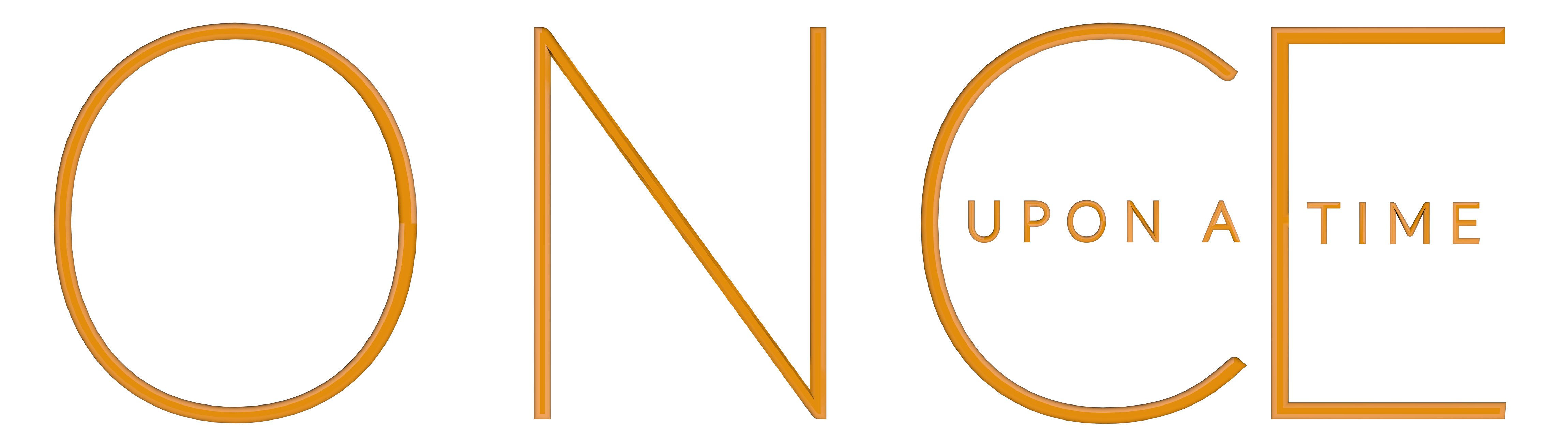 Logo of the television series Once Upon A Time